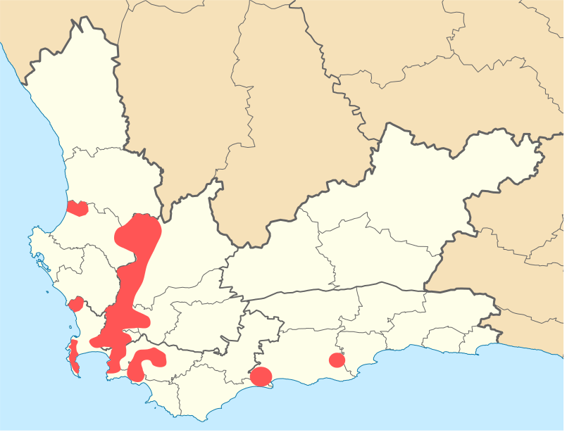 A distribution map of the plant Notobubon galbanum, otherwise known as the Blister Bush in the Western Cape, South Africa. Roughly based on a distribution map in "A Taxonomic Revision of the Woody South African Genus Notobubon (Apiaceae: Apioideae)"